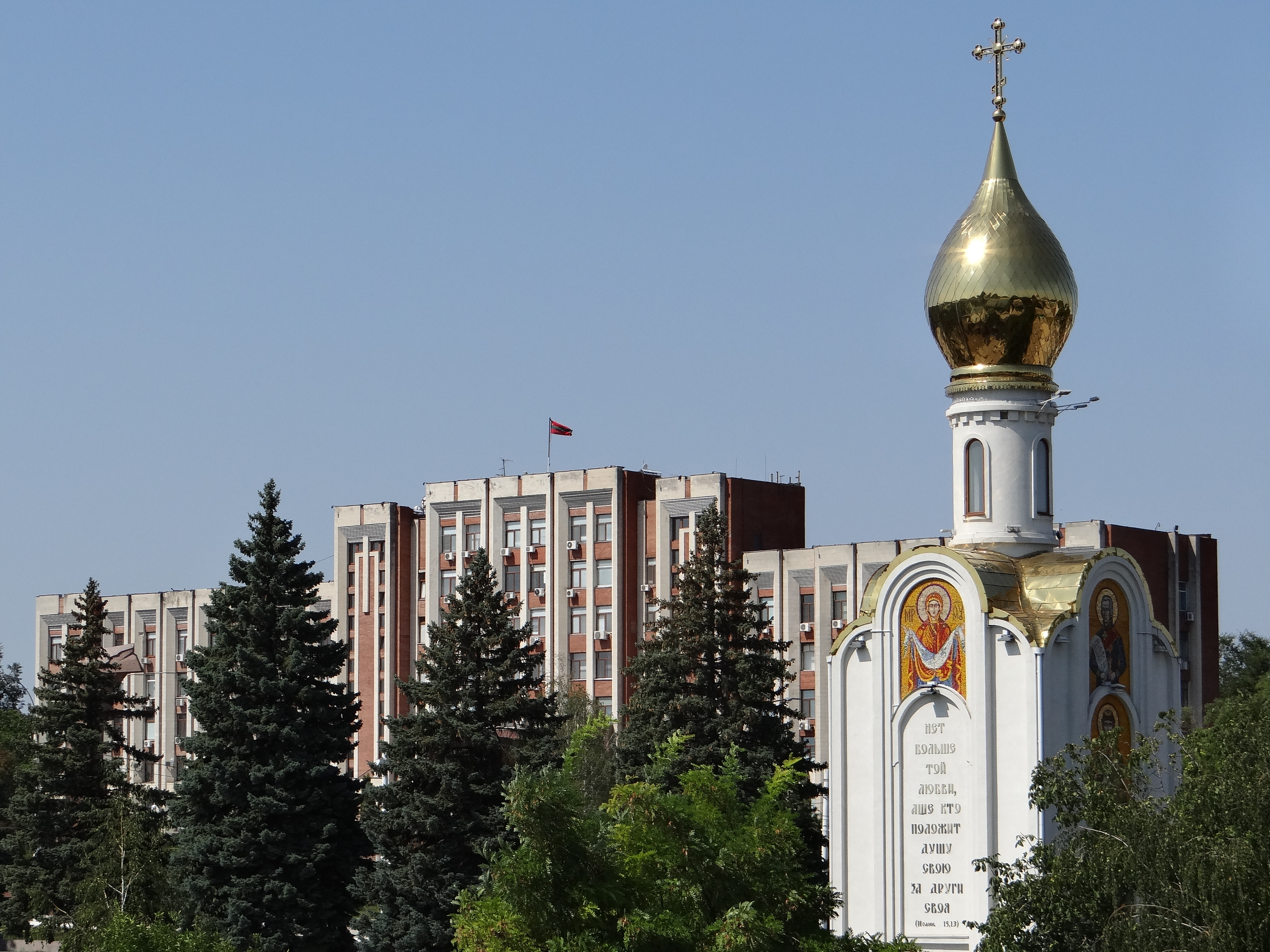 Architectural Detail - Tiraspol - Transnistria - 01